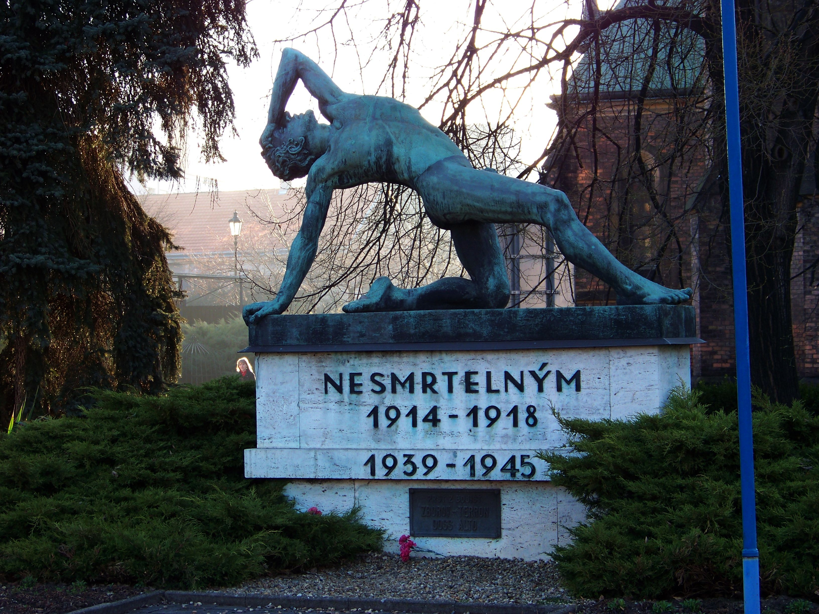 Kralupy nad Vltavou, Mělník District, Central Bohemian Region, the Czech Republic. Palackého Square, world wars memorial. - OpenStreetMap(Info)